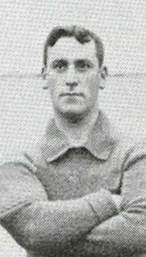 Walter Whittaker while with Brentford FC 1905/06.